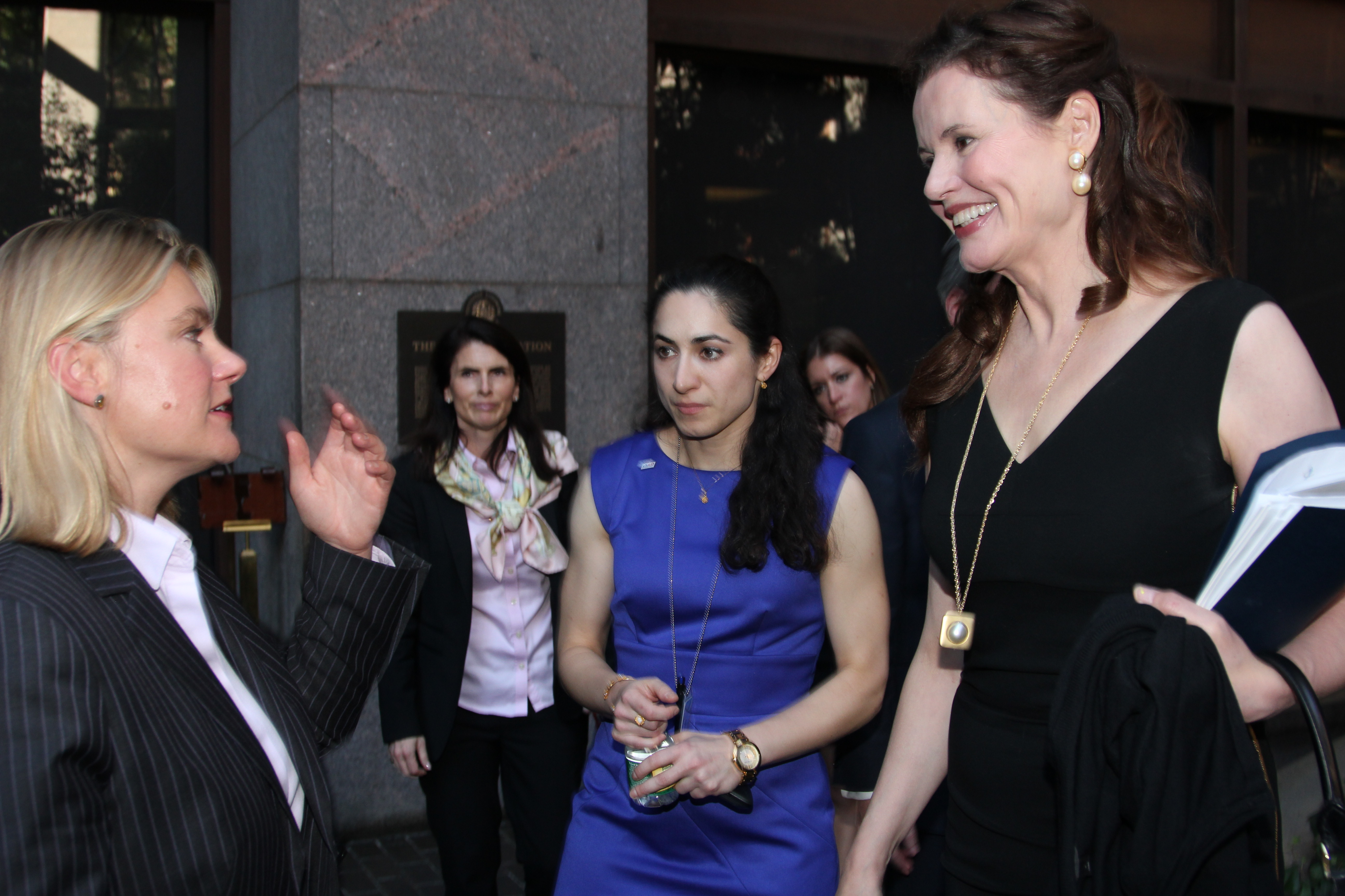 UK Secretary of State for International Development Justine Greening meets the actor Geena Davis at the MDG Countdown event, New York. Davis spoke in her capacity as UN Special Envoy on girls and women in the field of technology. Picture: Marisol Grandon/Department for International Development